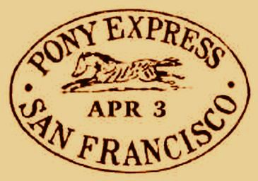 Postmark used by Pony Express, April 3, 1860, First Eastbound mailing date